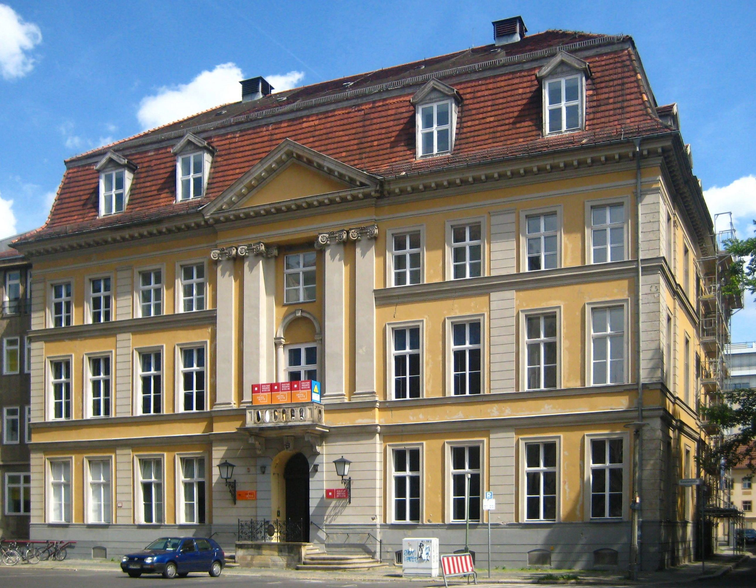 Palais Podewils at Klosterstraße 68-70 in Berlin-Mitte, built 1701-1704 by Jean de Bodt. After being heavily damaged in WWII, the building was reconstructed and altered.